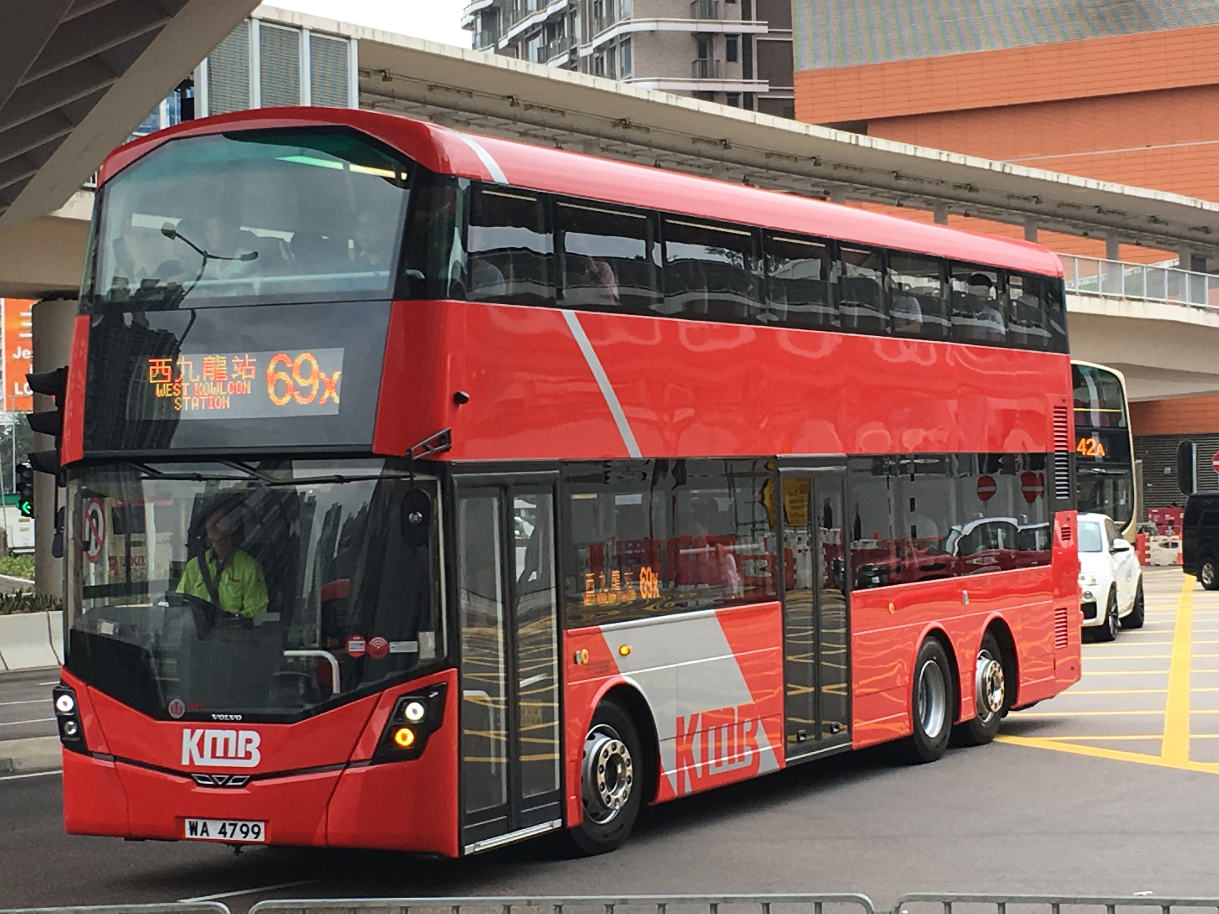 中文（香港）: This photo is taken in West Kowloon Station.